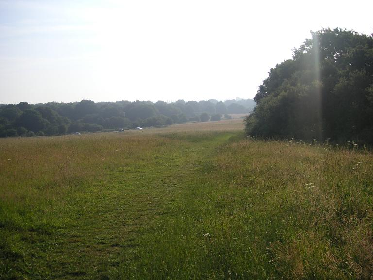 Photograph of Nomansland Common, Hertfordshire taken by Colin Riegels (1 July 2006)